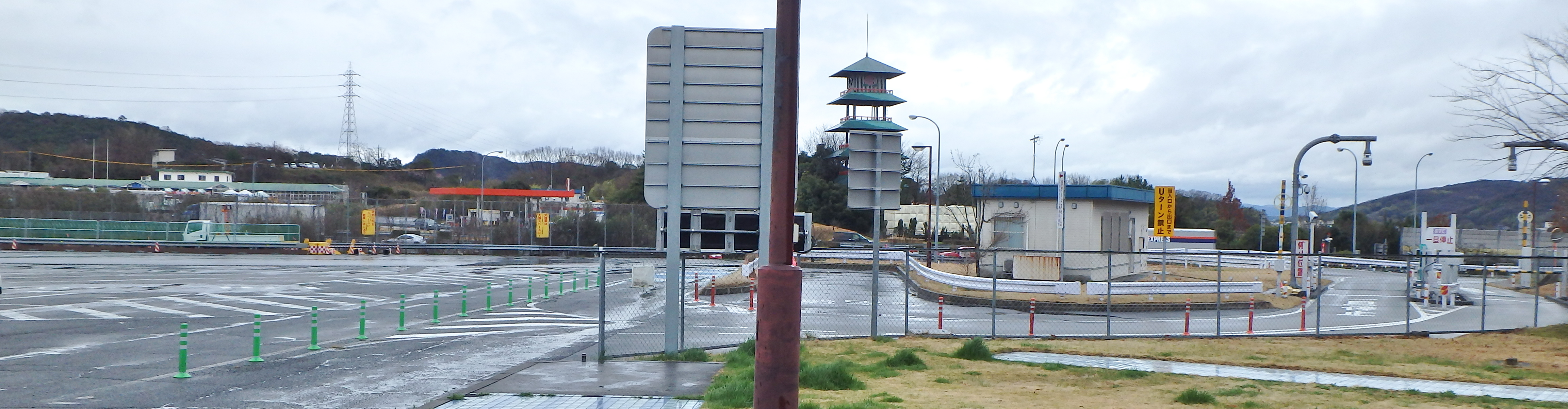 Kibi SA for Hirosima and Kibi Smart IC,Okayama prefecture,Japan